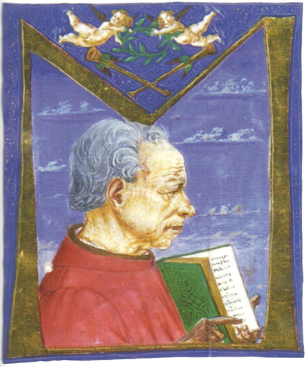 Portrait of Poggio Bracciolini, from illuminated manuscript (De Varietate Fortunae) in the Vatican Library, Urb. lat. 224